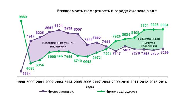 Number of births and deaths in Izhevsk